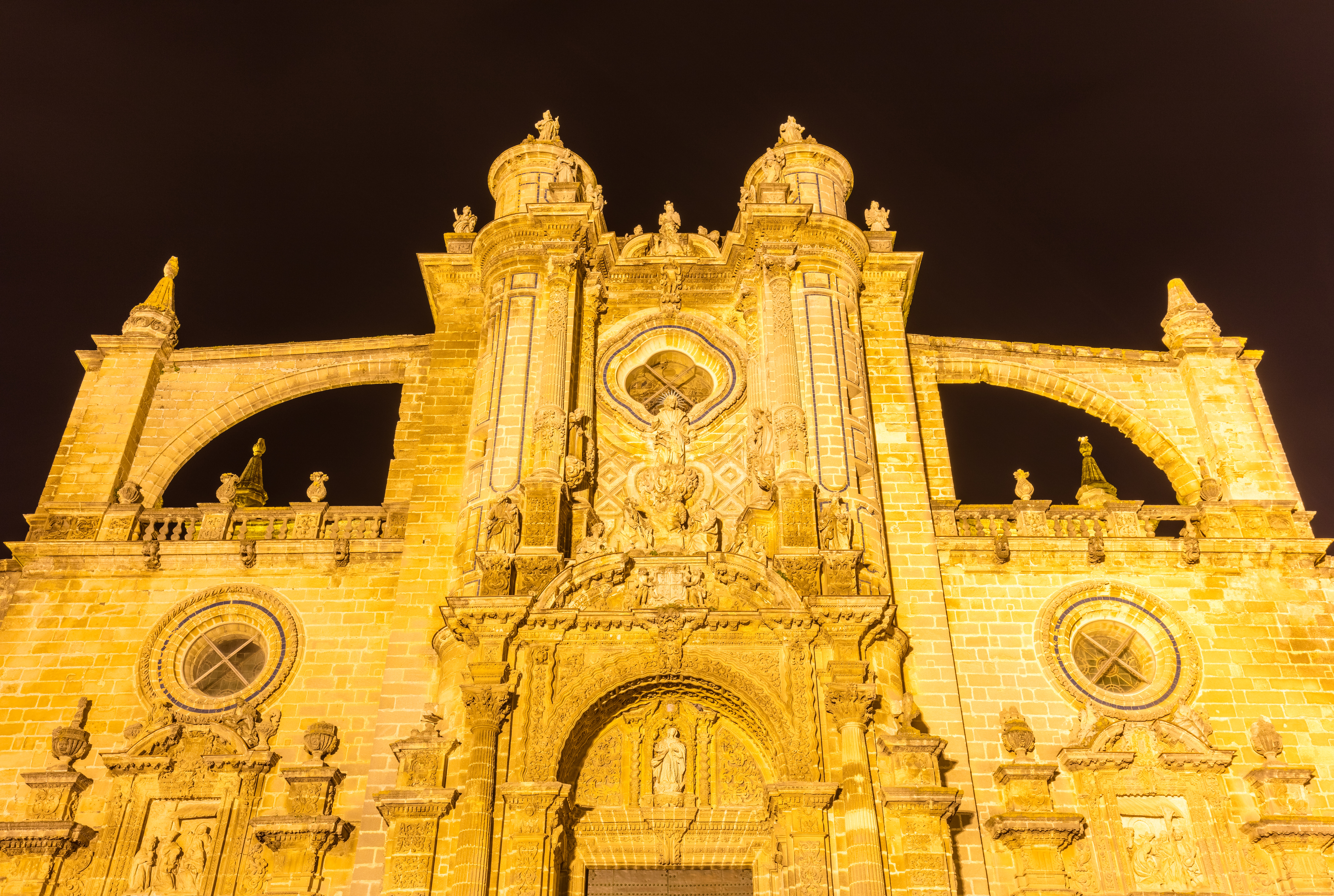 Cathedral of Jerez de la Frontera, Spain